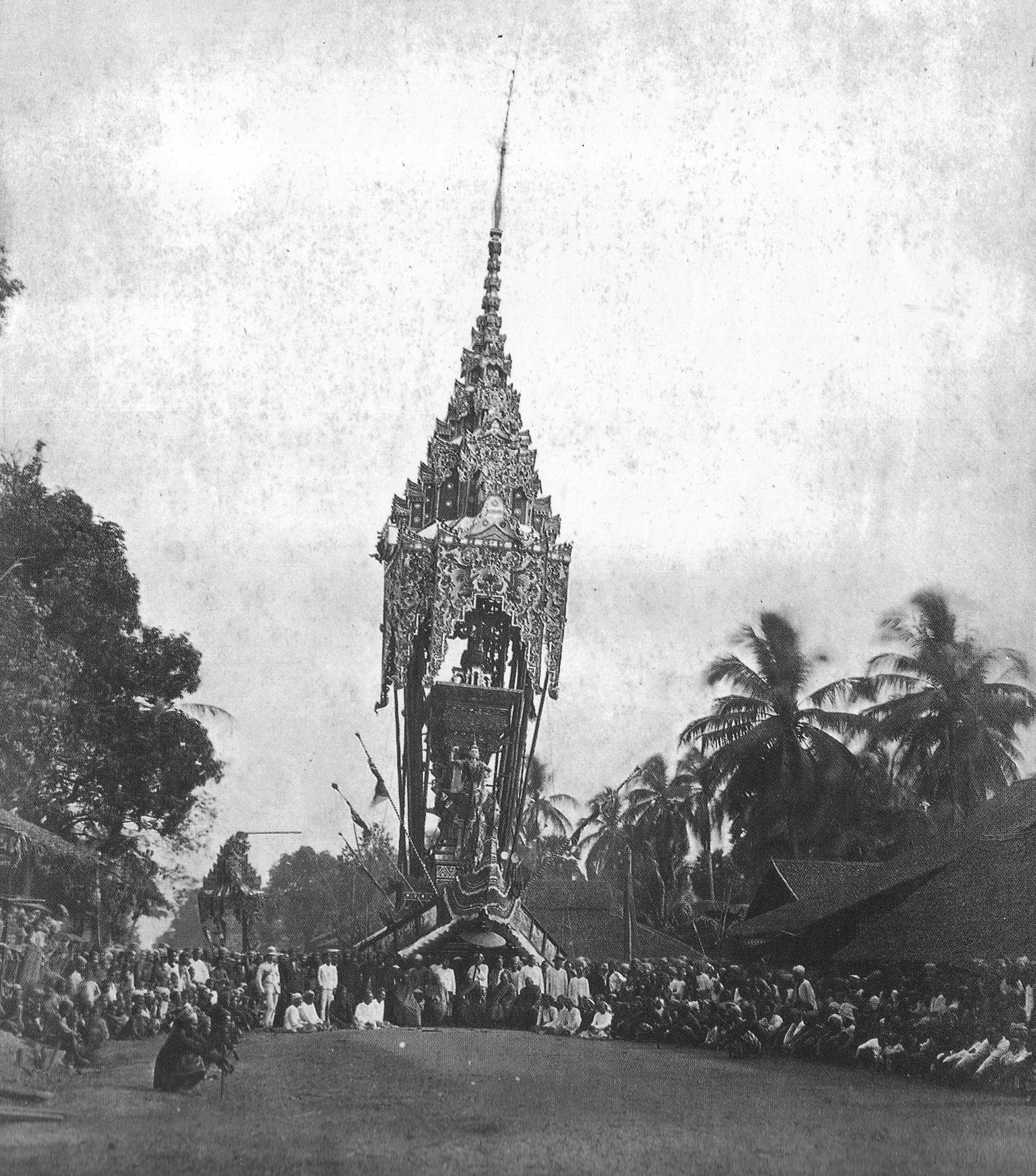 Burmese monk funeral